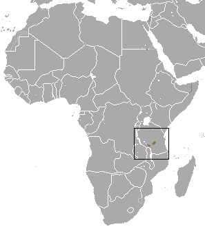 Desperate Shrew (Crocidura desperata) range